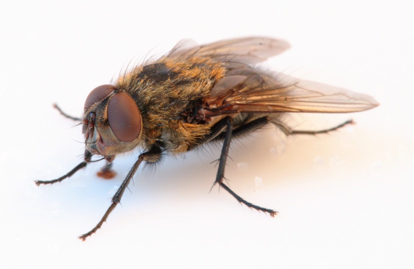 Musca Domestica drinking sugar water.